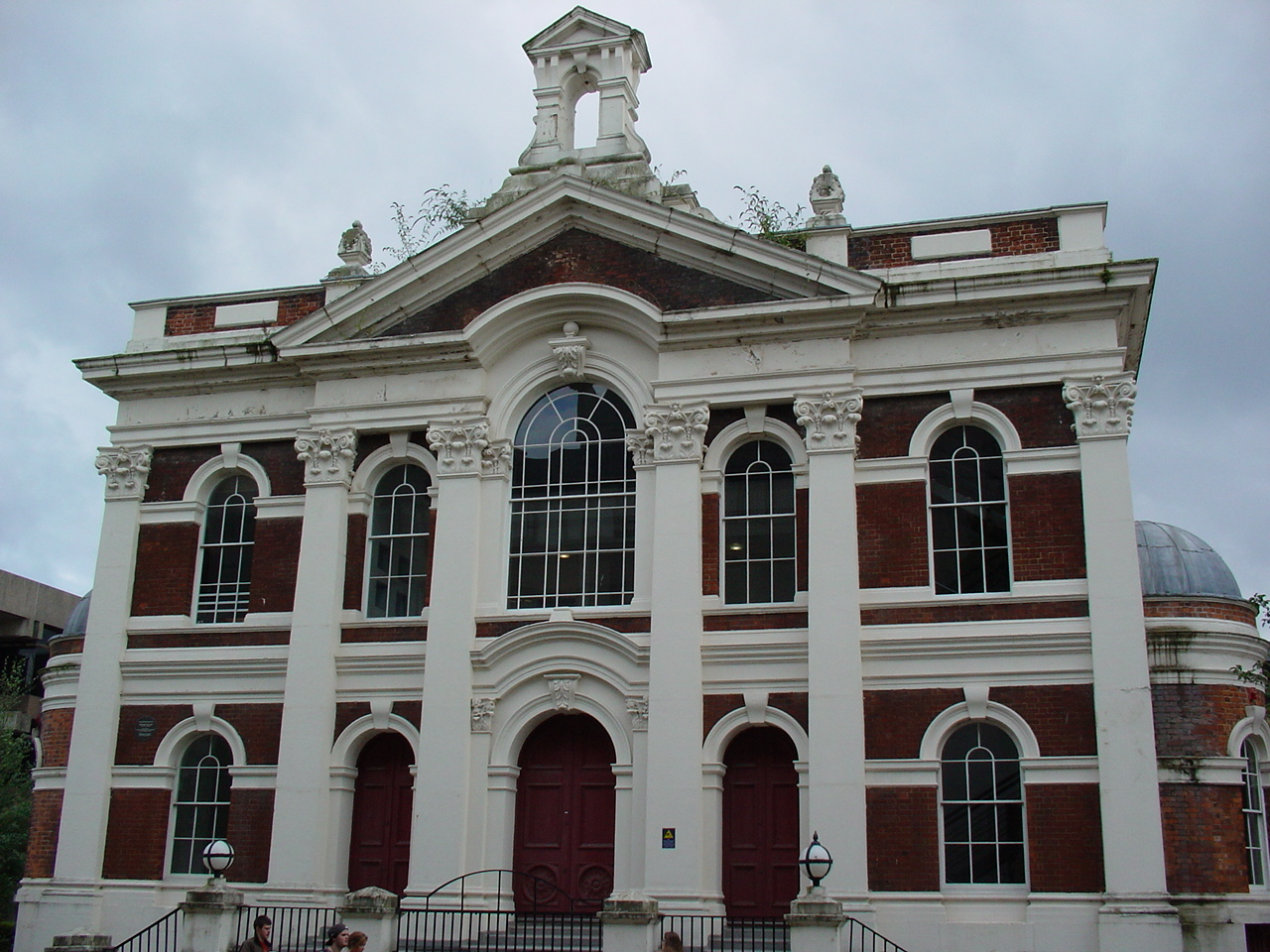 Former Welsh Presbyterian Chapel, Chatham Street, Liverpool, England, seen from the west. The building is now part of the University of Liverpool.